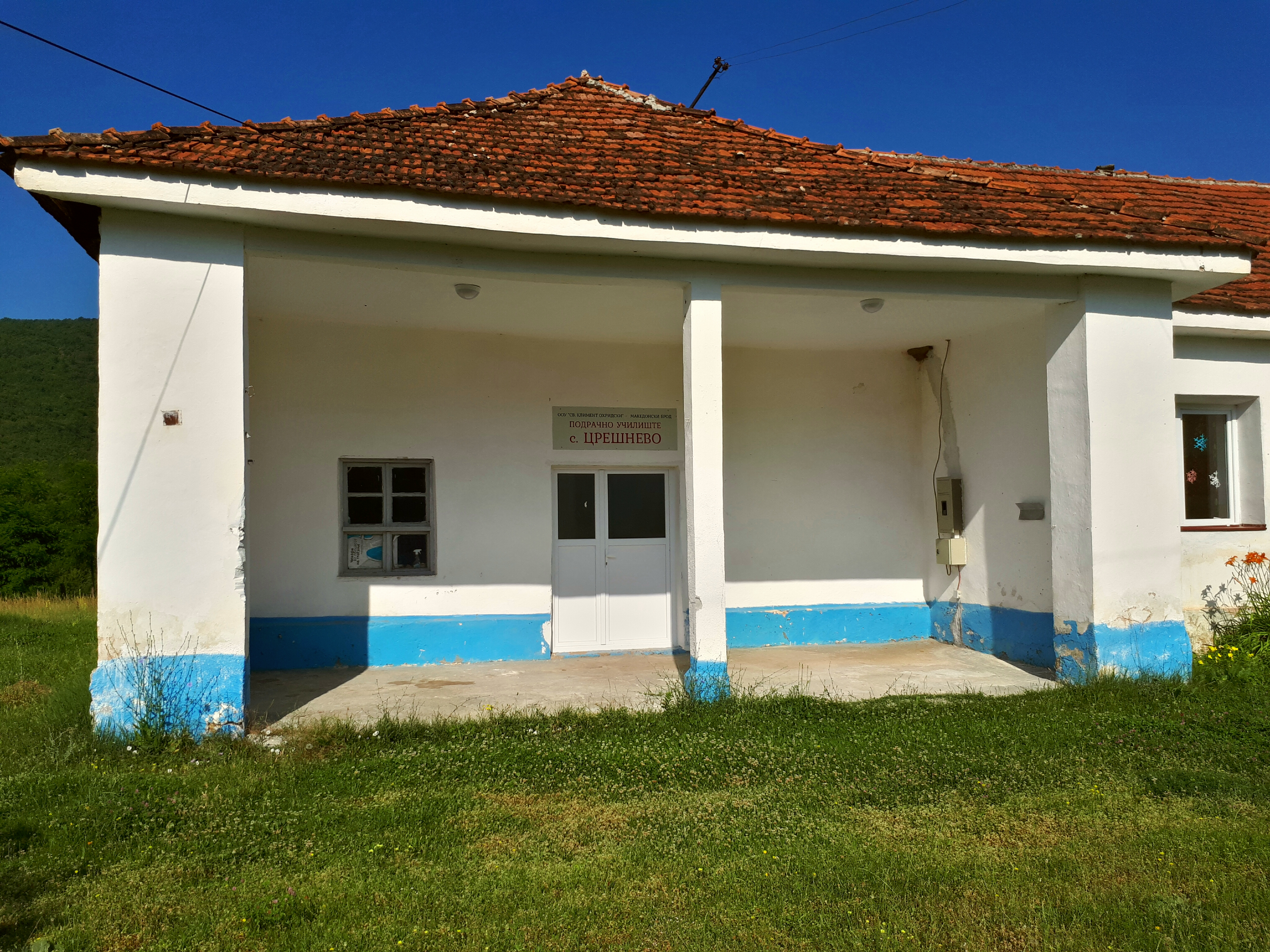 Primary school in the village Crešnevo